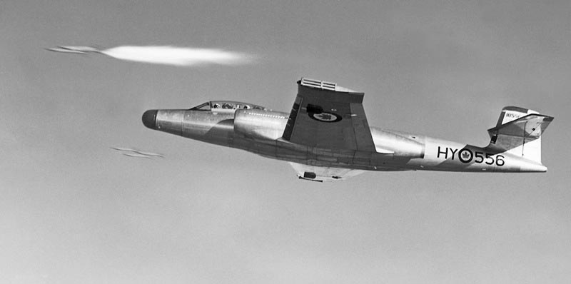 F/Os Ron Holden and John Cucheran are aboard this WPU (Weapons Practice Unit) CF-100 Mk. 5 firing six rockets from 3-tube practice launchers. First annual Air Defence Command rocket meet, Cold Lake, September 1957. Original image has been cropped.